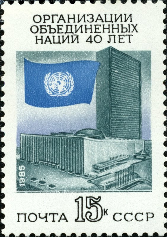 A USSR stamp, 40th Anniversary of UNO. Designer: Yury Artsimenev. Michel catalogue number: 5552. 15 K. green-blue, blue and black. Headquarters in New York, flag.